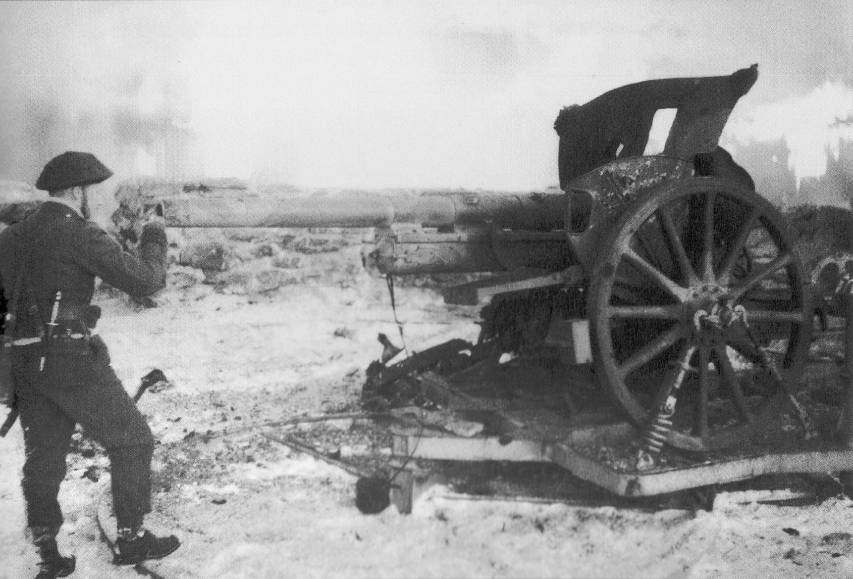 Caption: "Major Jack Churchill examines one of four captured Belgian 75s"